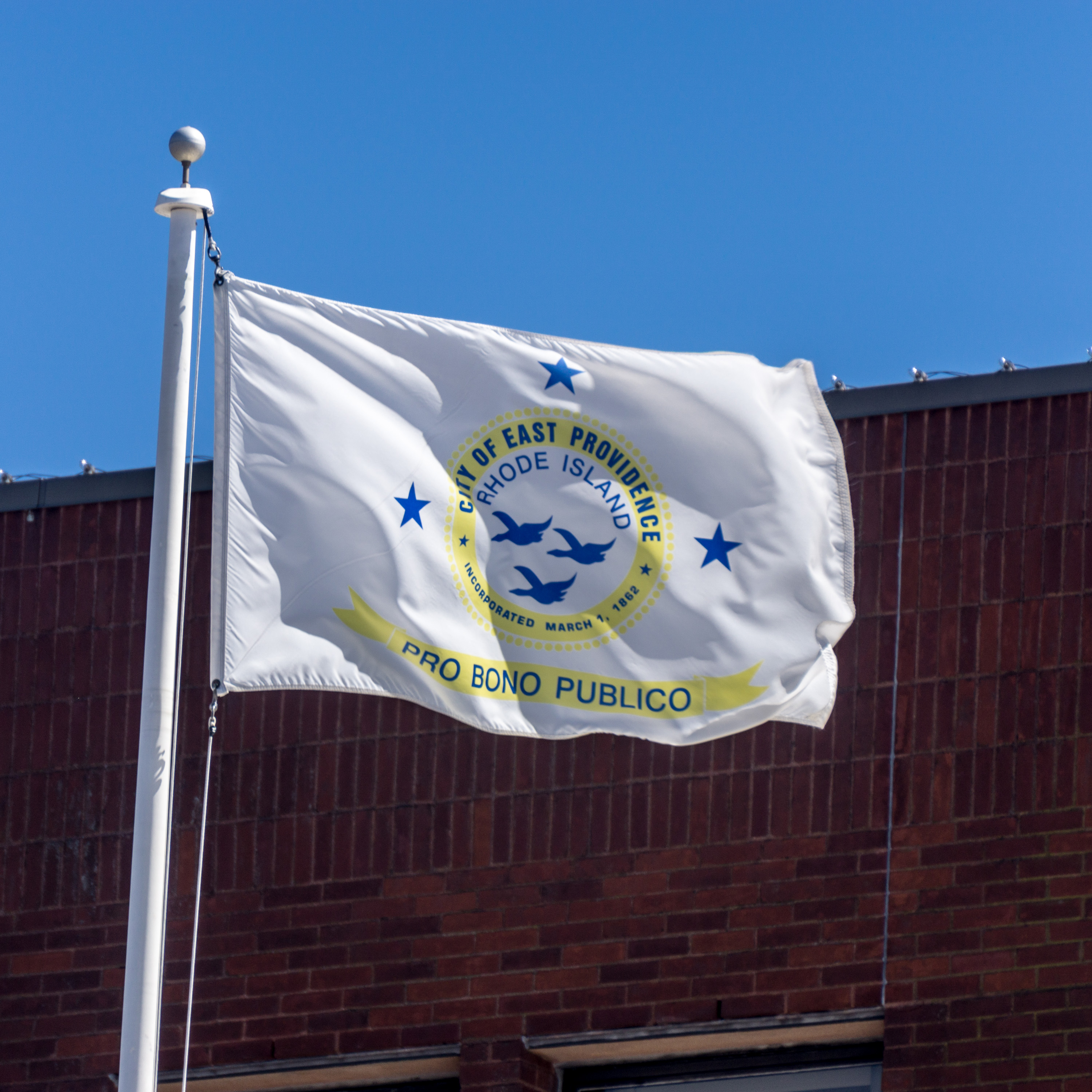 Flag of East Providence, Rhode Island, in front of East Providence City Hall.